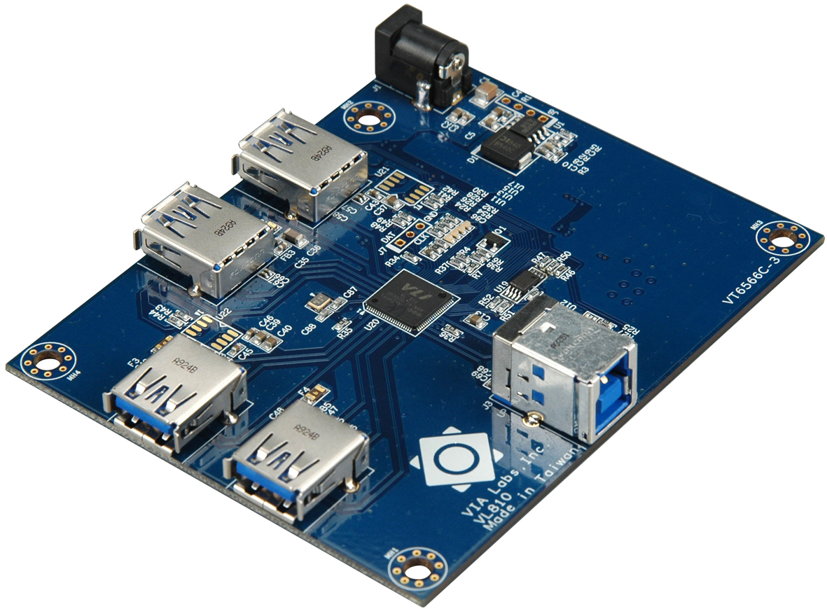 Demo board showcasing the new VIA VL810 SuperSpeed Hub Controller with support for one upstream and four downstream ports.